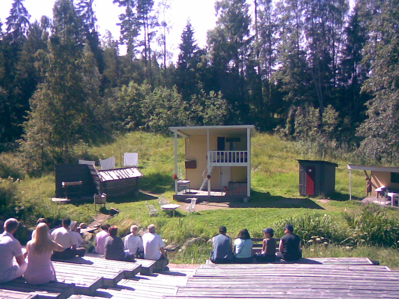 Myllykolu summer theater in Hämeenkyrö, Finland. The photo was taken in 2008. The play was based on the book by a Finnish writer F.E. Sillanpää.